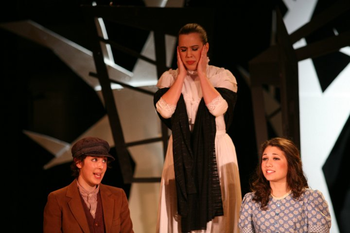 2000 Production of the opera "The Turn of the Screw" by the student company Brown Opera Productions, Brown University, USA